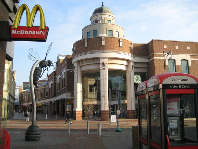 High Street entrance to the Harlequin Shopping Centre, Watford, Hertfordshire, UK.